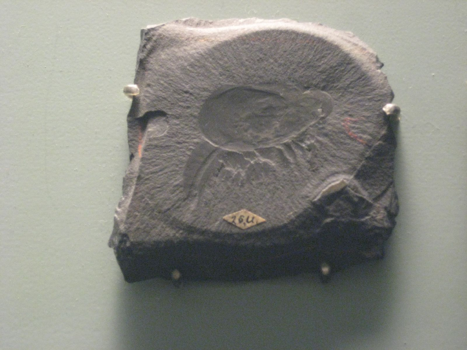 Canadaspis perfectafrom the Burgess Shale, possibly the oldest identified crustacean.